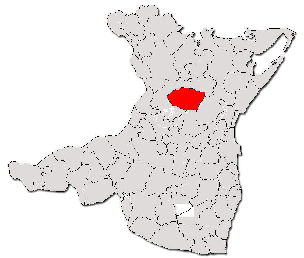 Countour map of Nicolae Balcescu commune